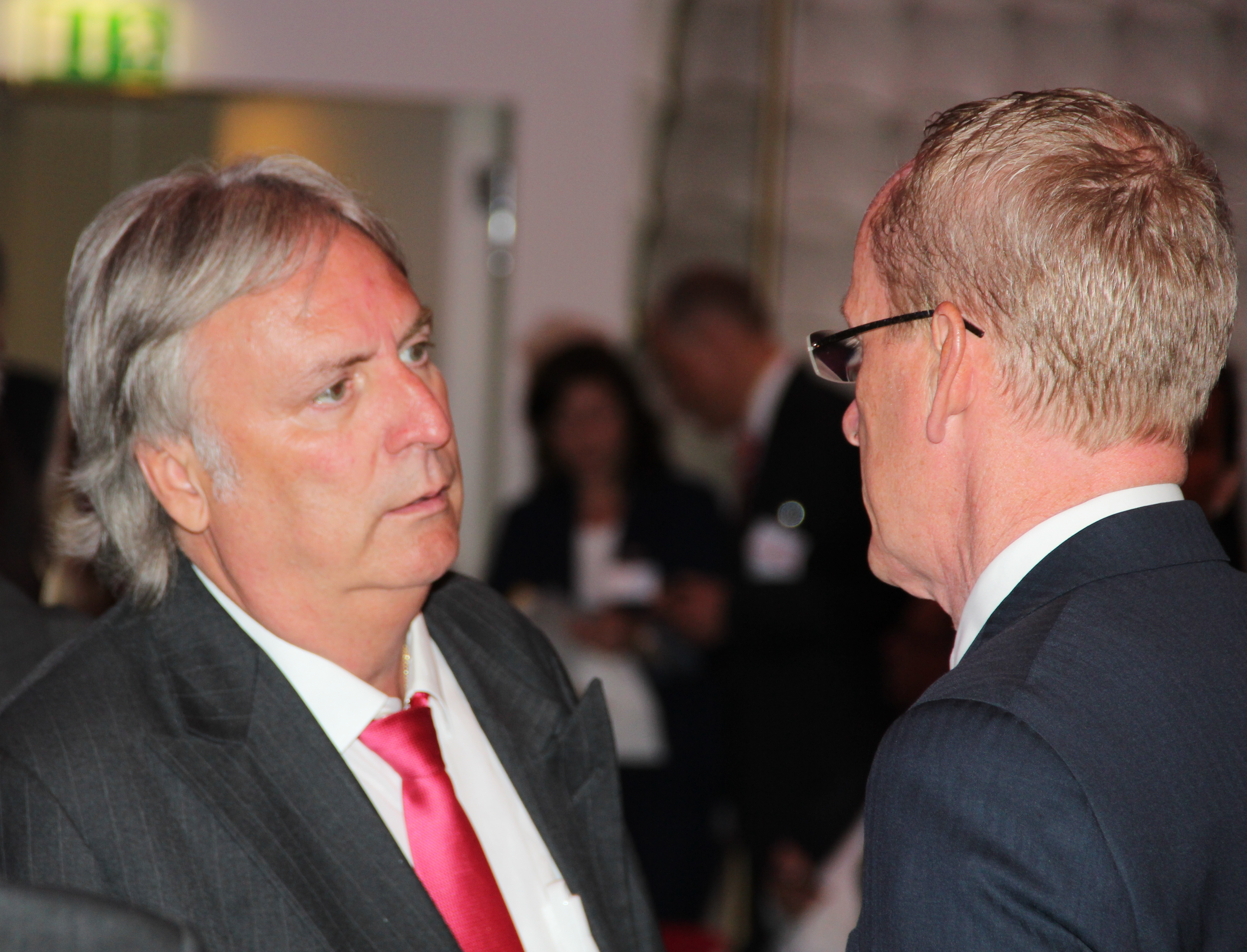 Prof. Peter Gutzmer, Member of the Management Board of Schaeffler (Germany) - during the Electromobility Summit in Berlin 2013